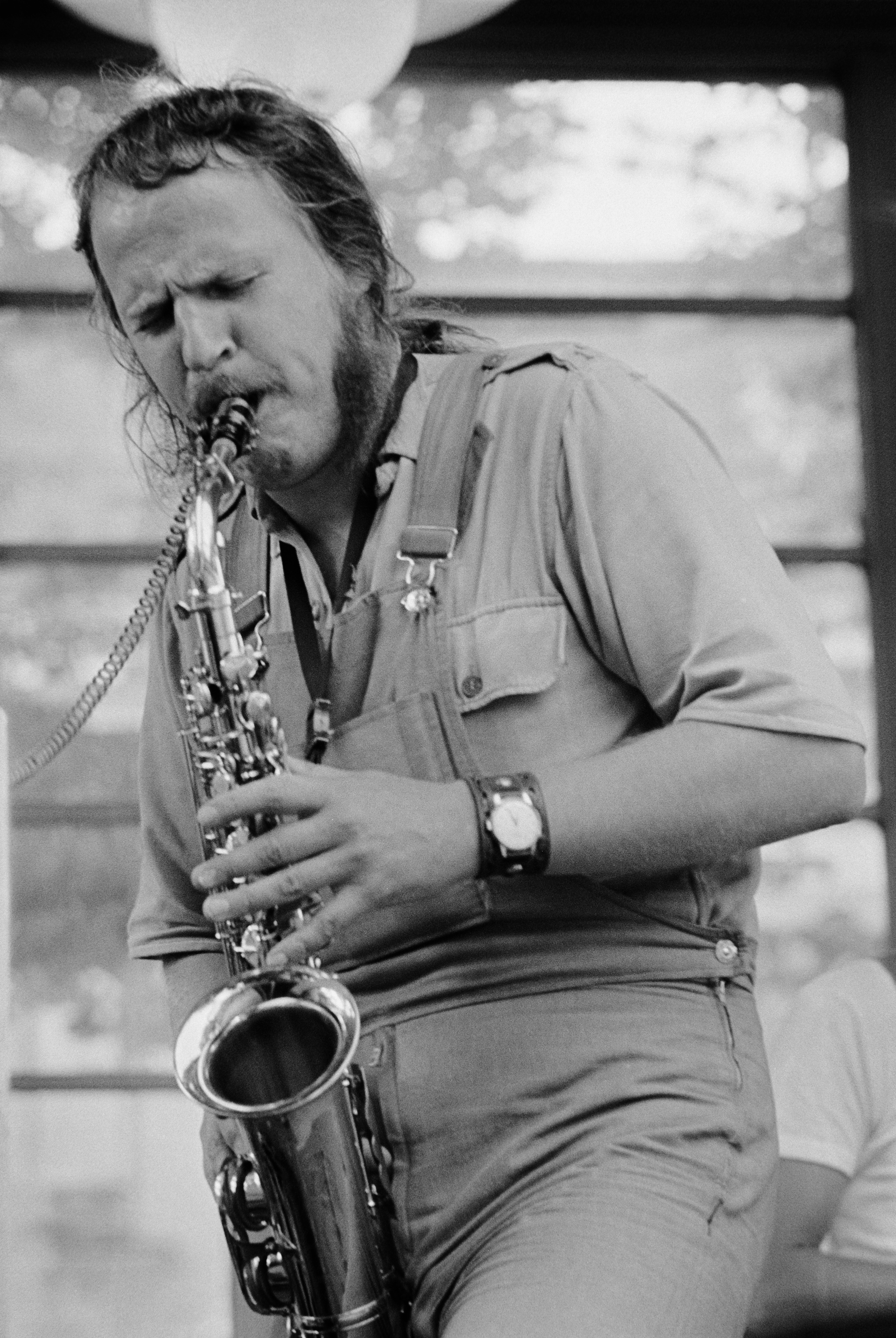 Photograph of the Finnish musician Seppo “Paroni” Paakkunainen (1943–) when the band Dopplerin ilmiö performed in Esplanadi Park during Helsinki Festival.